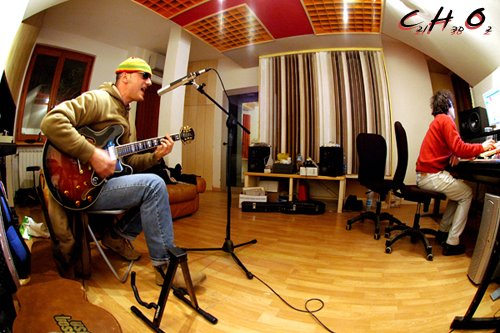 Hierbamala hierba pindi in studio